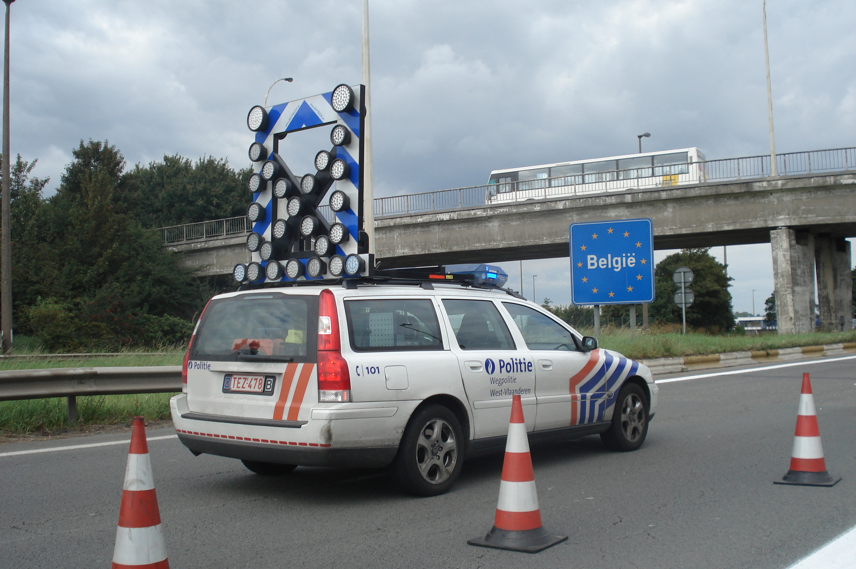 A Belgian highway patrol car at the French-Belgian border, a Flemish bus passes by on the bridge in the background